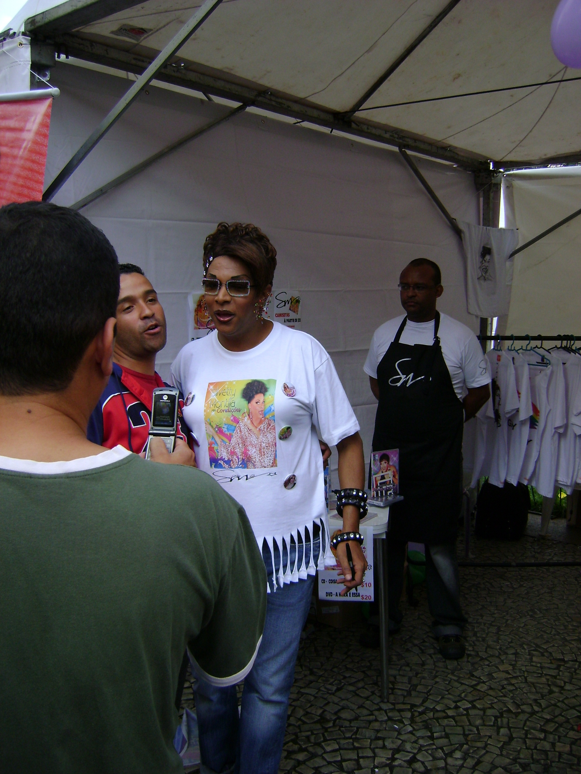 brazilian drag queen Silvetty Montilla at LGBT Cultural Fair in São Paulo, 2009